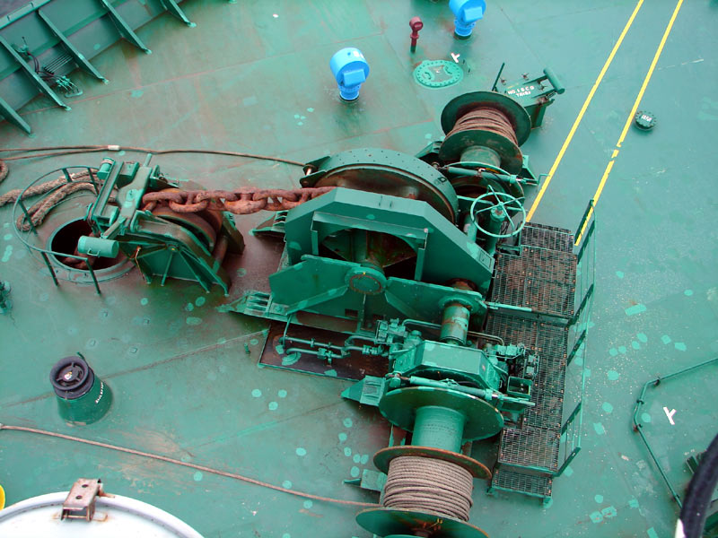 Mooring winch forward of the VLCC Algarve. 117 mm chains, snap point 9300 kN, total weight 121 tonnes for 27,50 m.